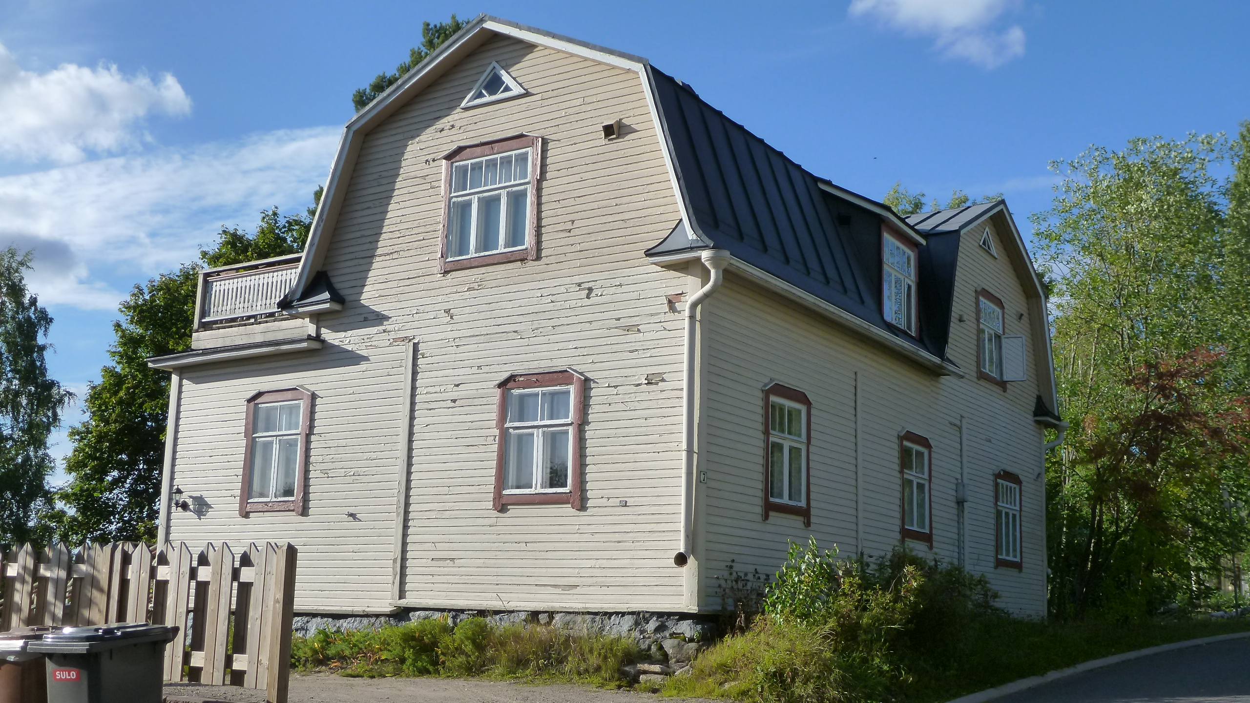 An old wooden house in Halssila